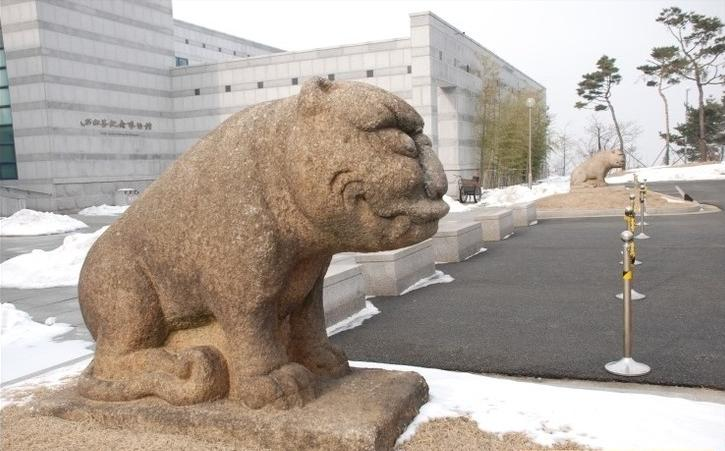 Dankook University, Seokjuseon Museum of front, Stonetiger(Jukjeon)